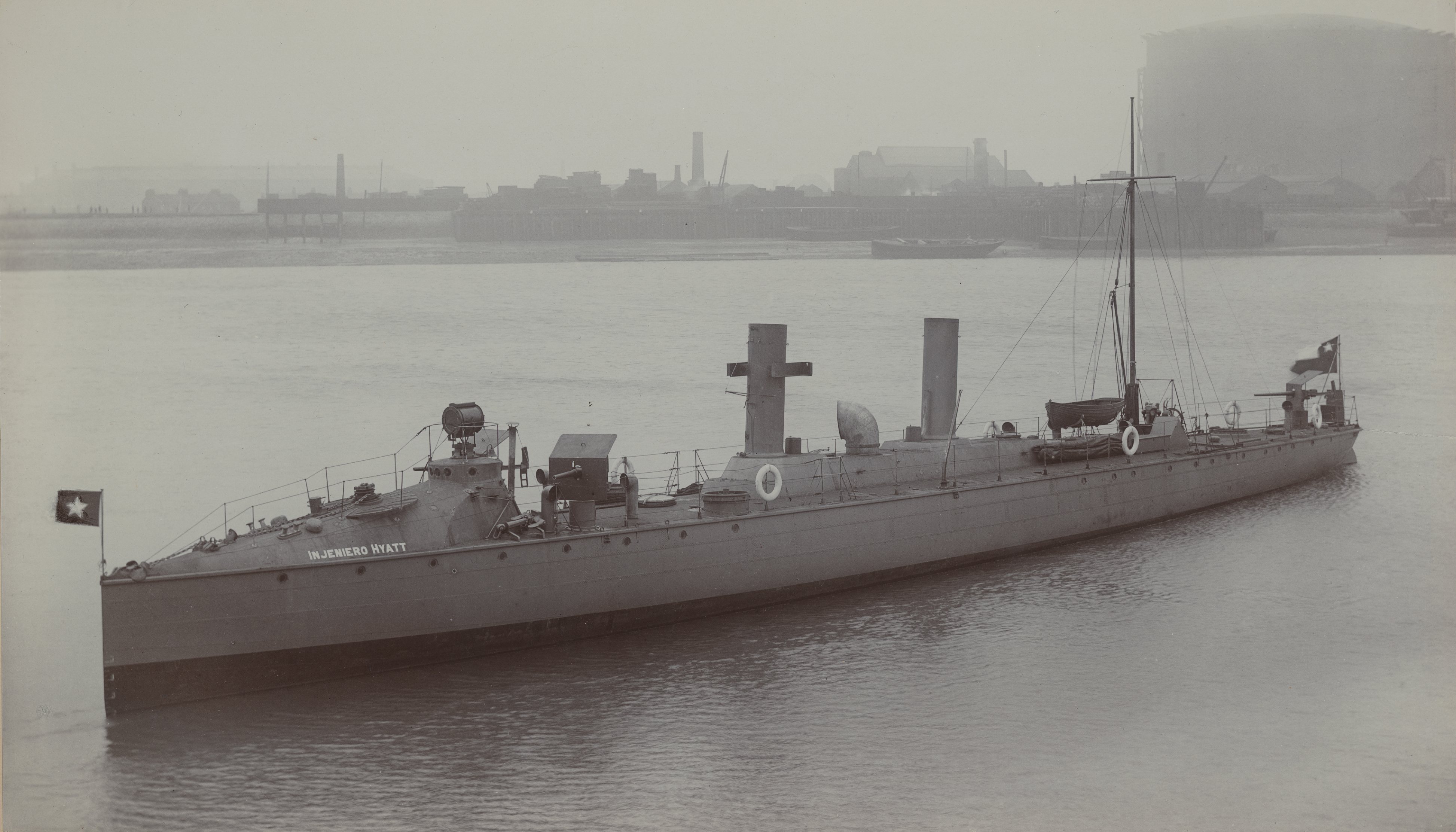 Chielean Torpedo boat Ingeniero Hyatt (1897)